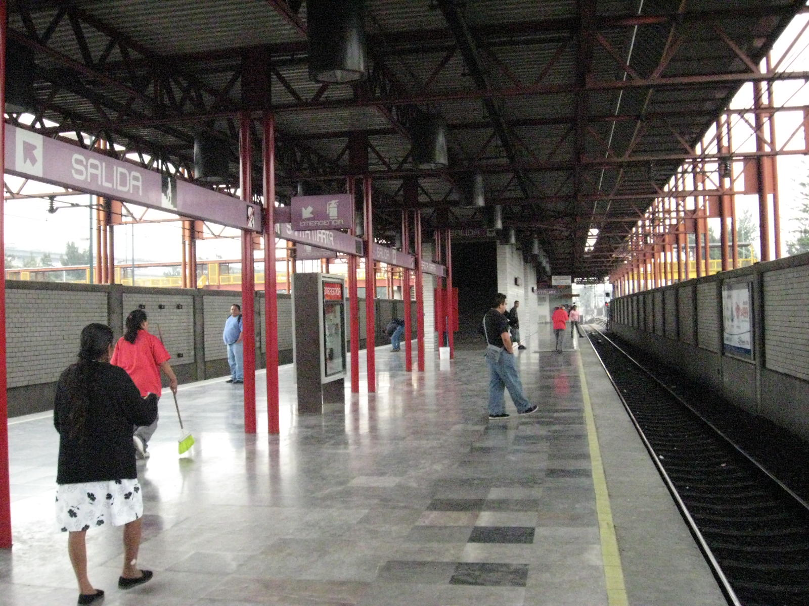 View of the platform of Metro station Santa Martha on Line A of the Mexico City Metro system